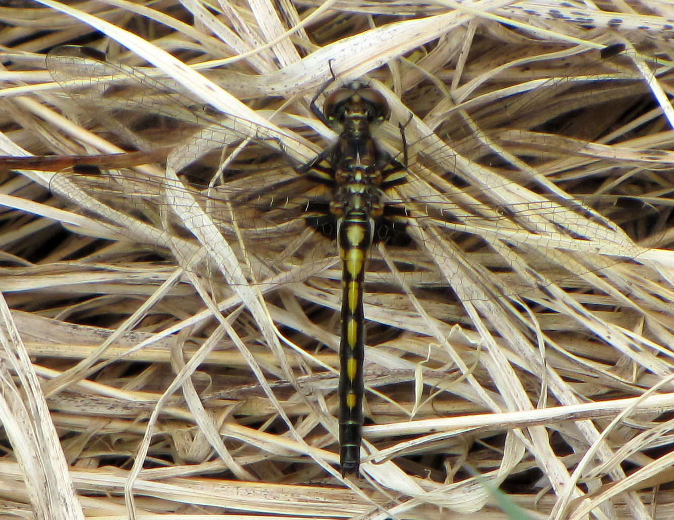 Frosted Whiteface (Leucorrhinia frigida), juvenile female, Ottawa, Ontario, Canada